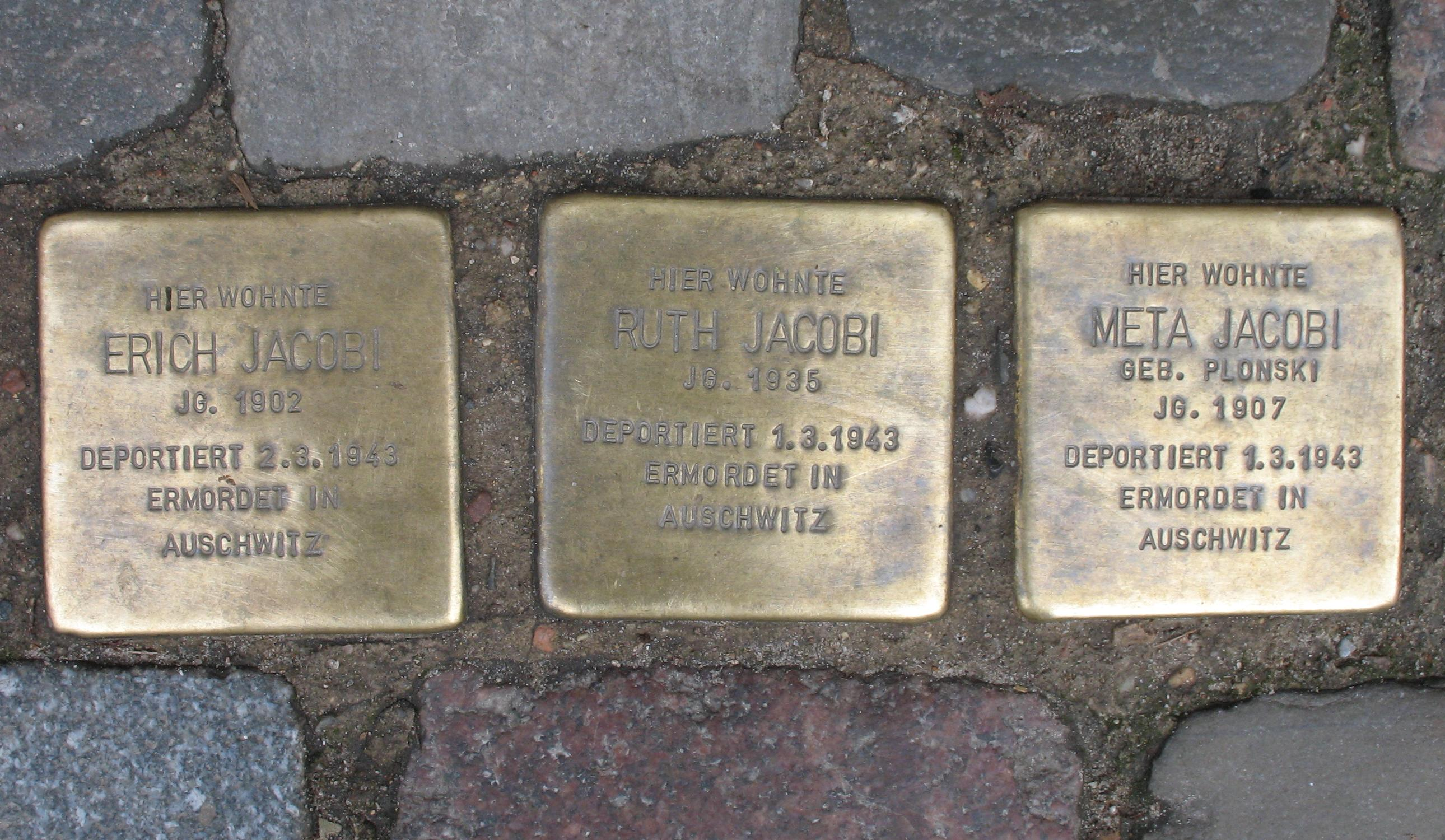 "Stumbling blocks" in Berlin-Prenzlauer Berg, Germany